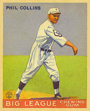 1933 Goudey card of Phil Collins of the Philadelphia Phillies #21. PD-not-renewed.